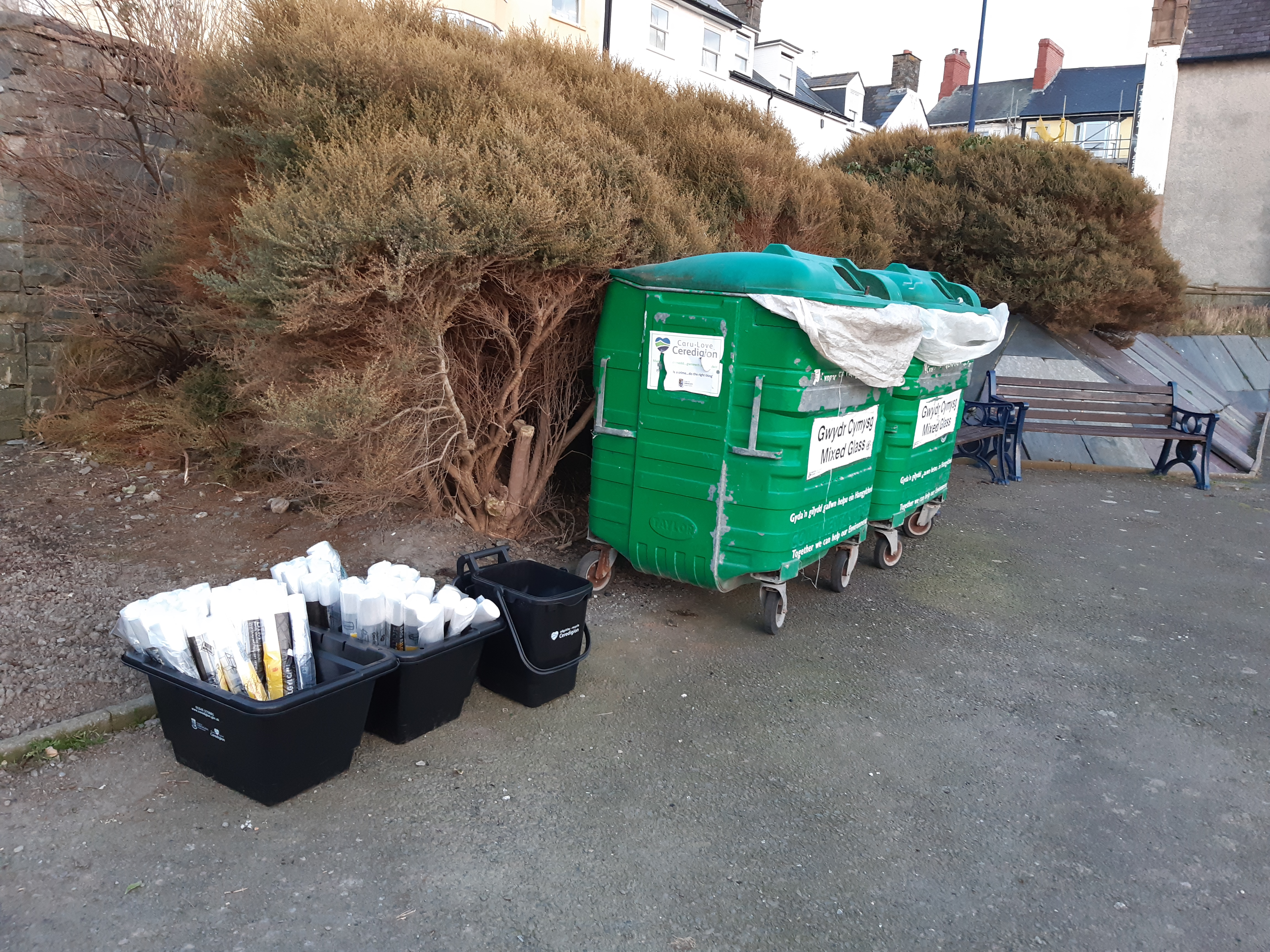 recycling bags Aberystwyth during COVID-19